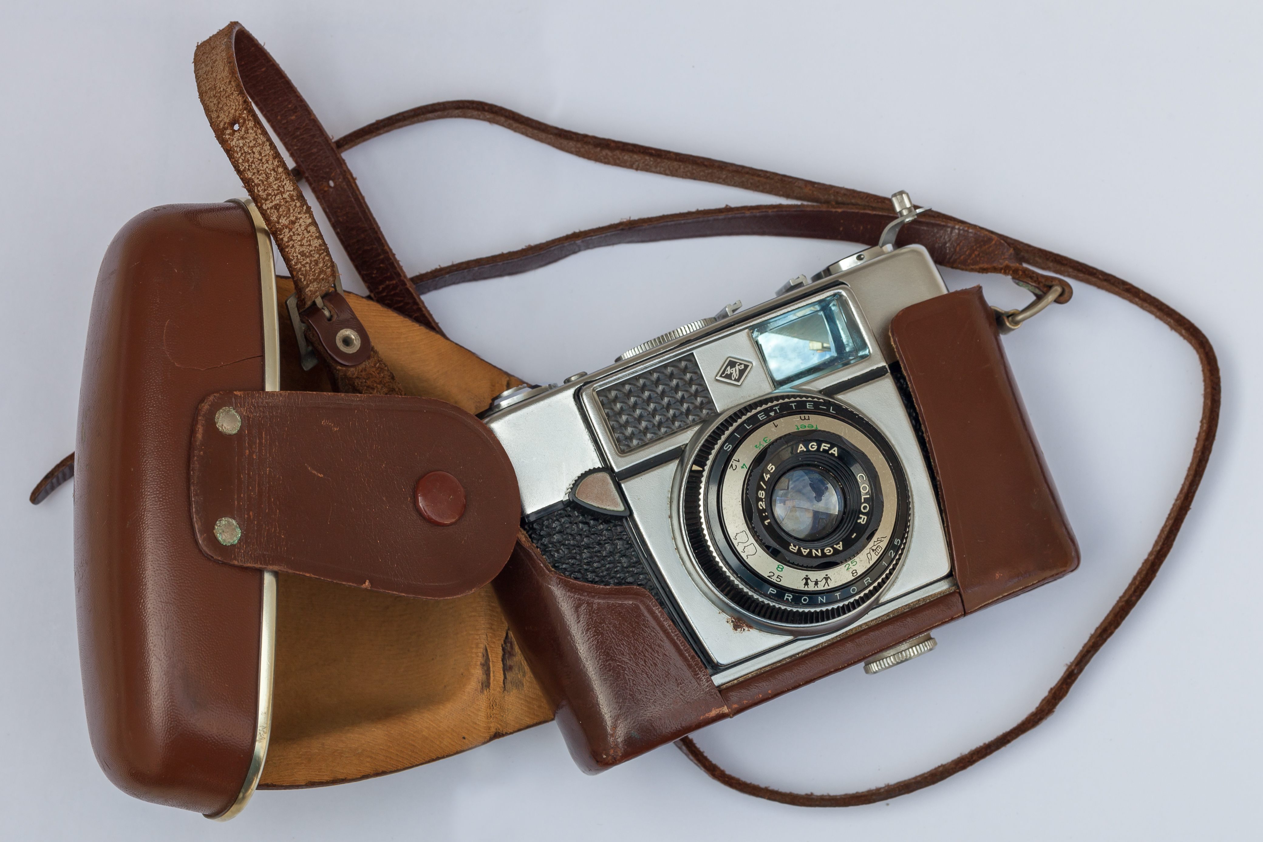 Agfa Silette-L Prontor 125